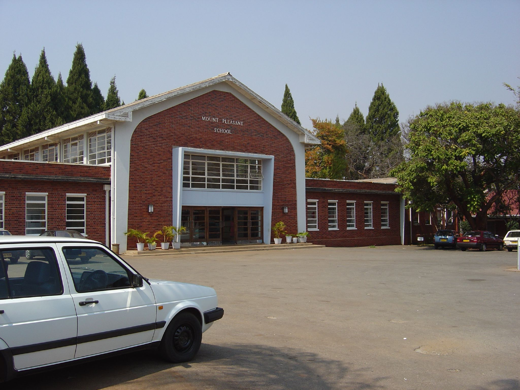 Mount Pleasant School in Harare, ZImbabwe by garybembridge